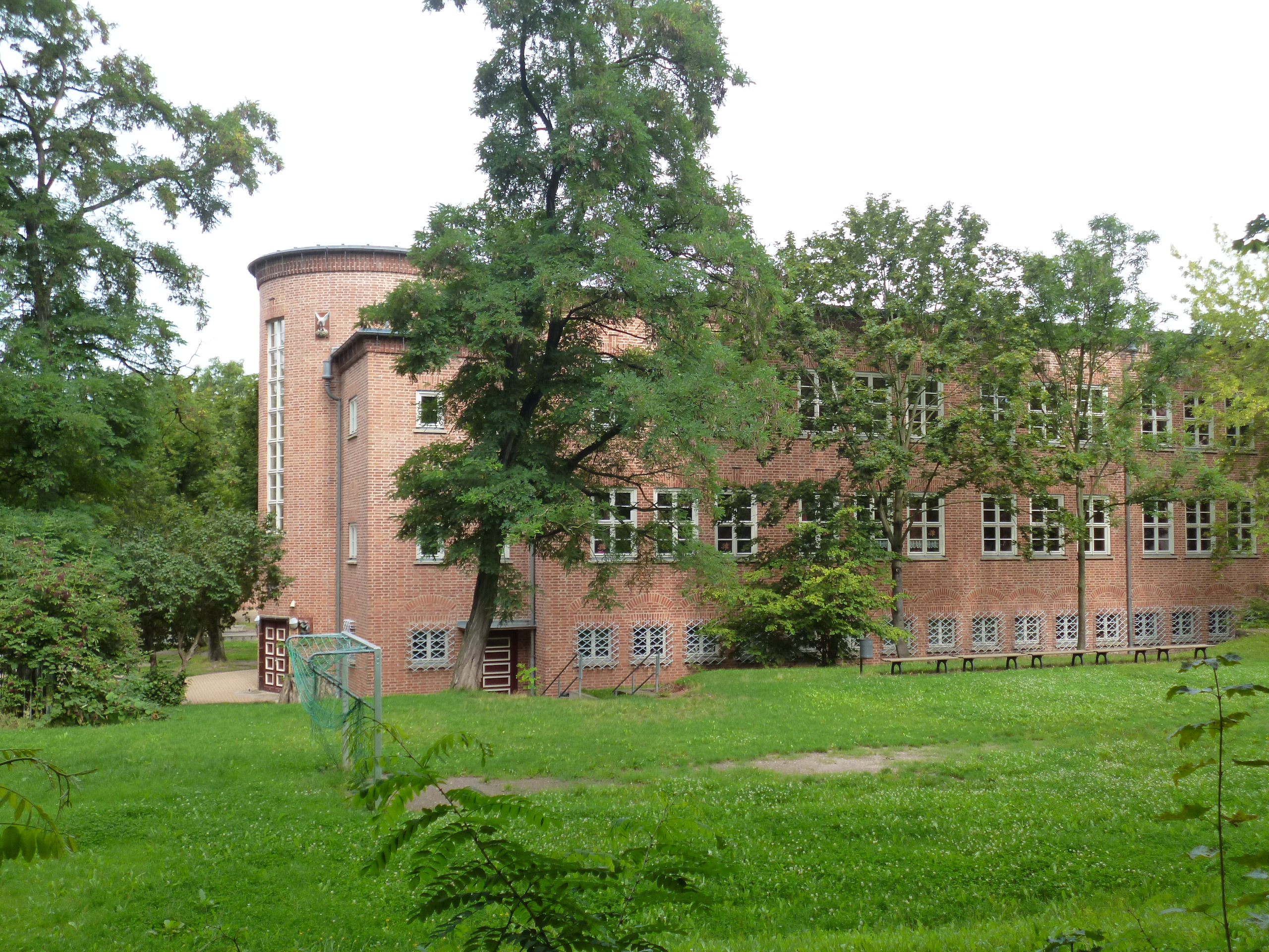 Pestalozzi school (special school), Vor dem Hamstertor No. 12, Halle (Saale)